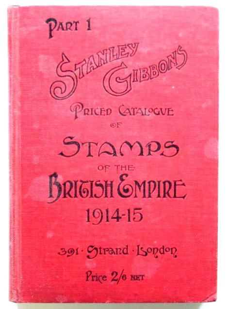 Stanley Gibbons Priced Catalogue of the Stamps of the British Empire 1914-15. Part 1.